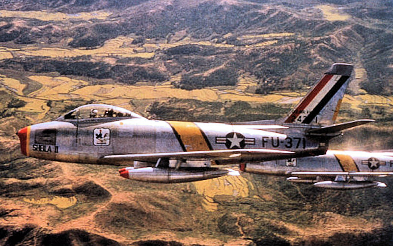 67th Fighter-Bomber Squadron North American F-86F-25-NH Sabre 52-5371. Aircraft sold to Spain as EdA C.5-167 in 1955-56